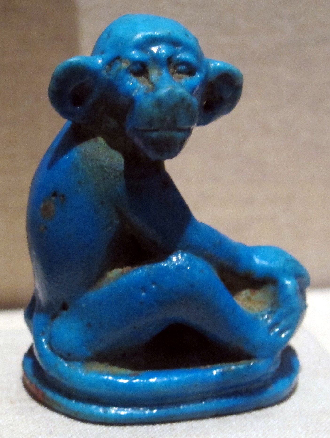 Egyptian antiquities in the Brooklyn Museum